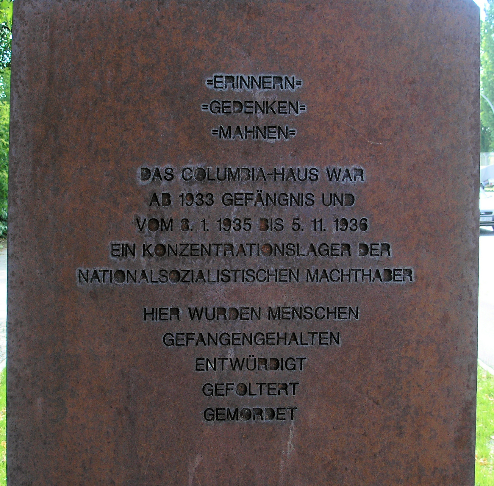 Memorial plaque, Columbiahaus, Columbiadamm 71, Berlin-Tempelhof, Germany